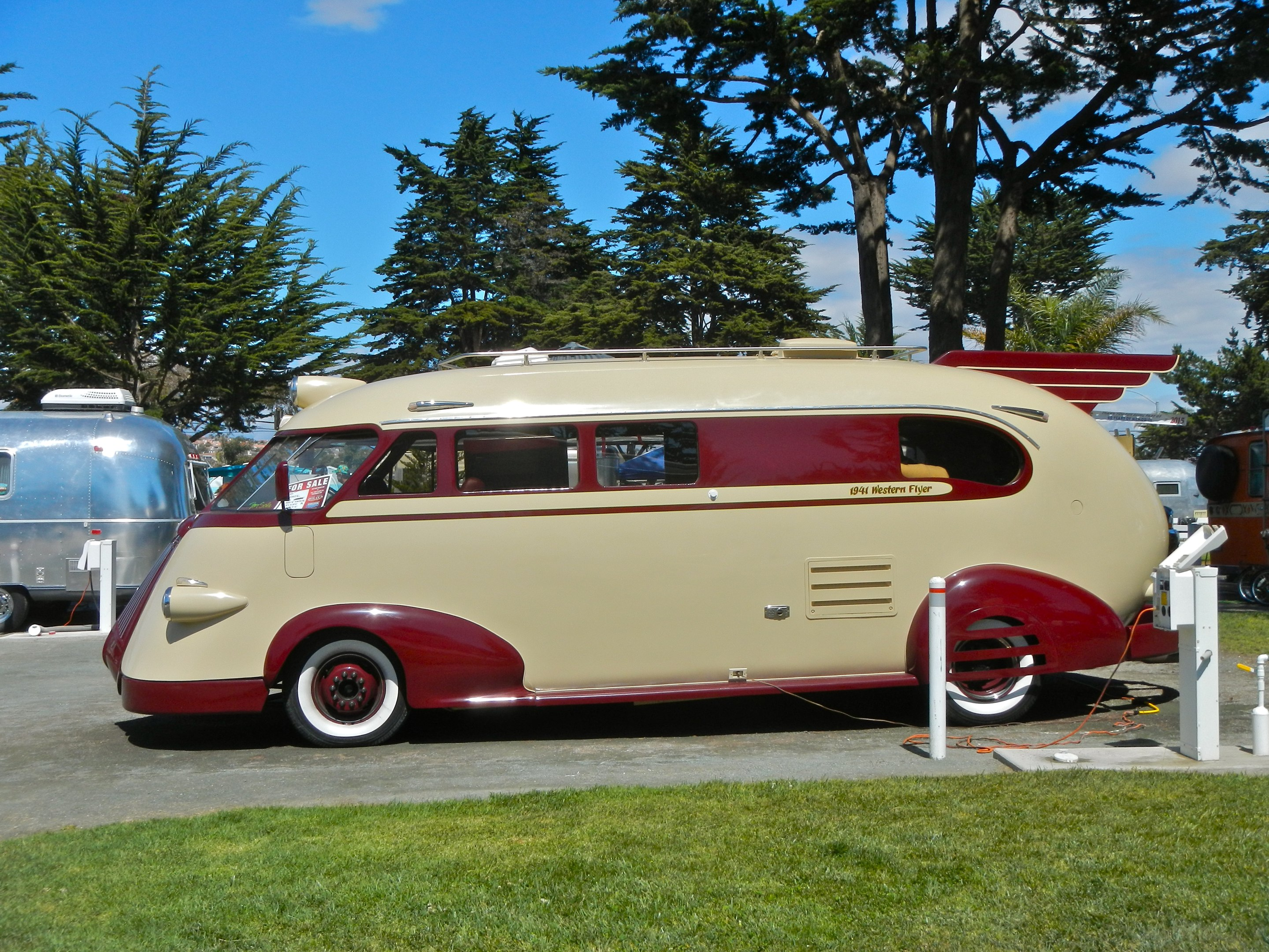 1941 Western FlyerPismo Beach 8th Annual Vintage Trailer Rally 2015